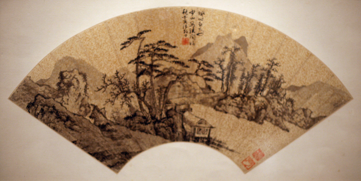 Xie Shichen (Chinese 1487-ca. 1567). Landscape, 1542. Fan; ink on gold dusted paper. Brooklyn Museum, Gift of H. Christopher Luce, 1993.193.